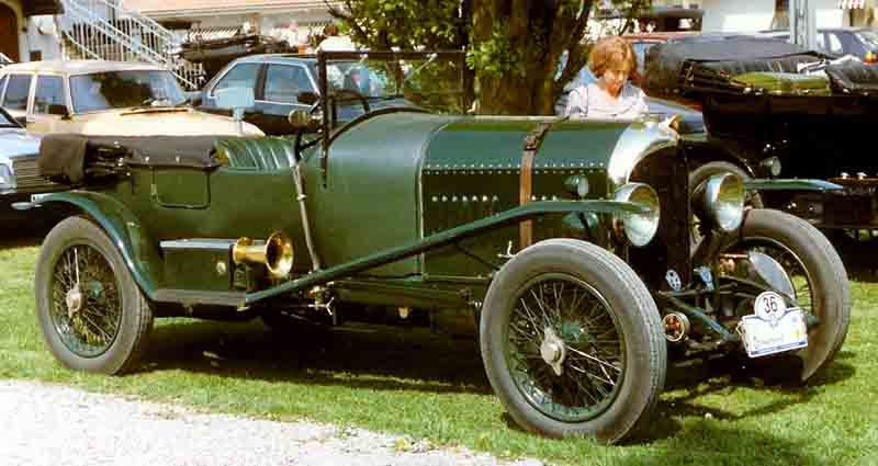 Bentley 3-Litre Speed Model 4-Seater Tourer 1925